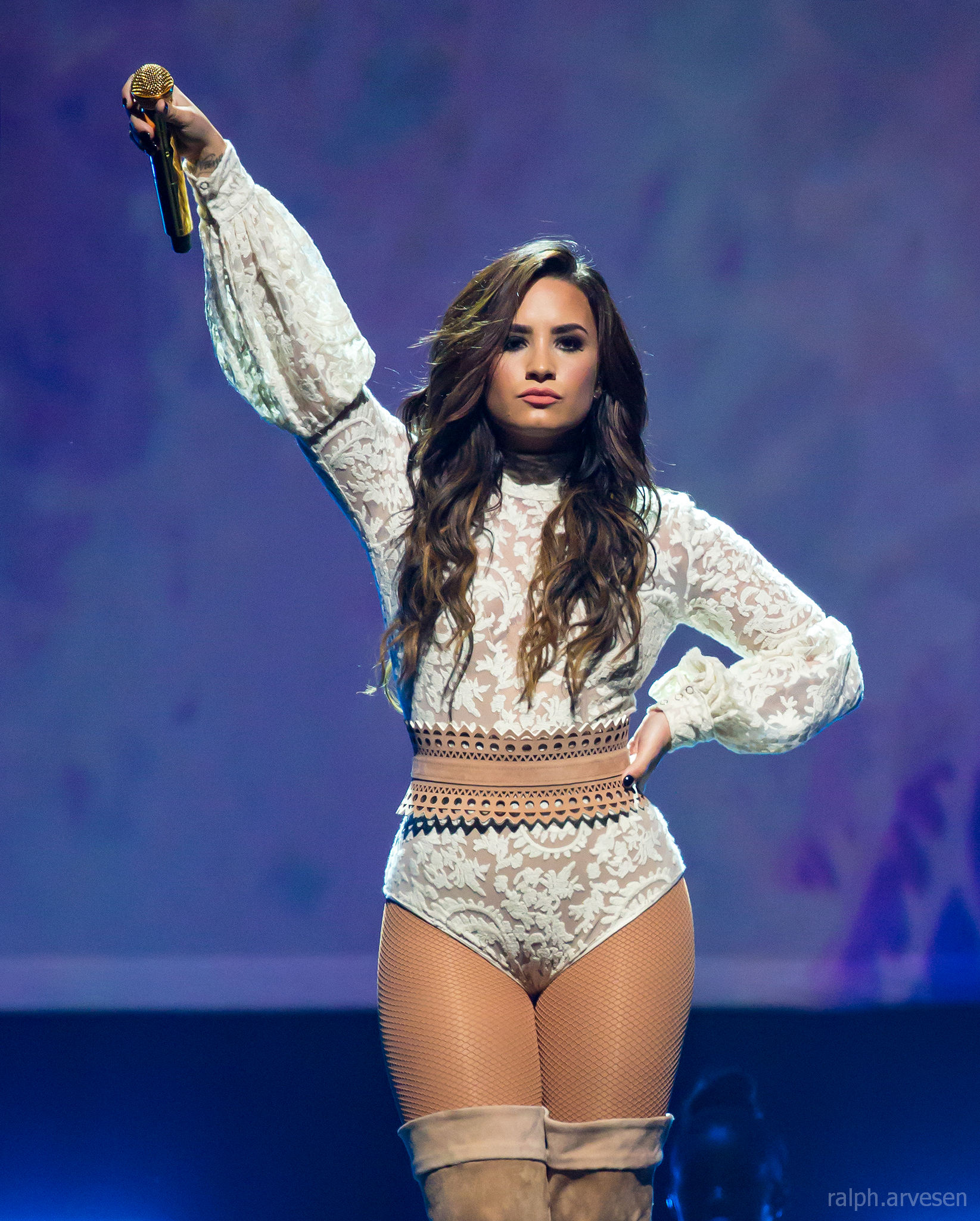 Demi Lovato performing at the AT&T Center in San Antonio, Texas on September 10, 2016.